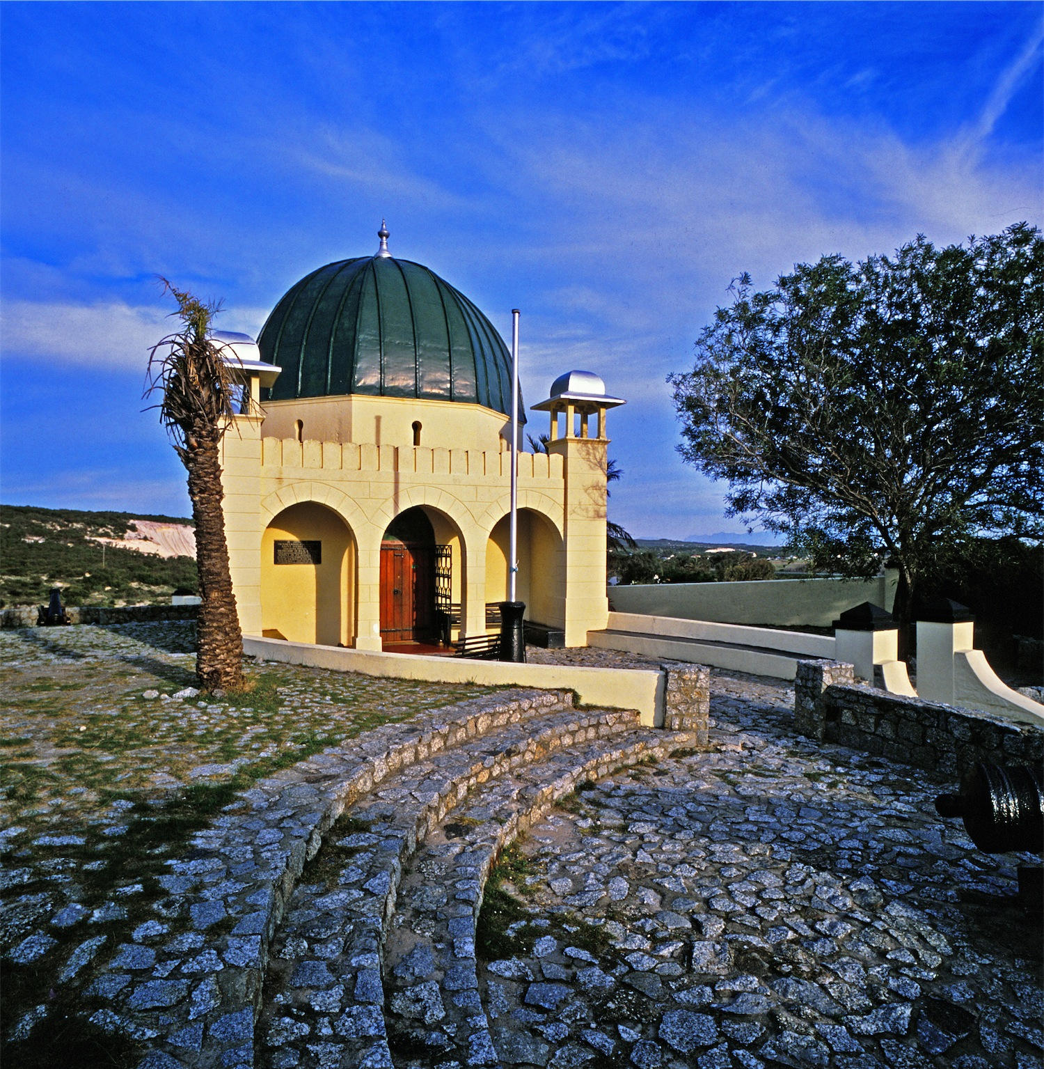 This media shows a South African Protected Site with SAHRA file reference 0000000000.